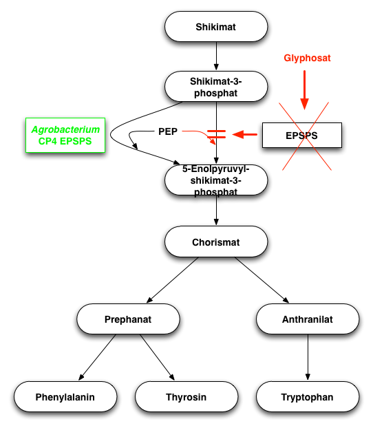 Schematic representation of glyphosate mode of action and mechanism of CP4 EPSPS mediated tolerance., in German